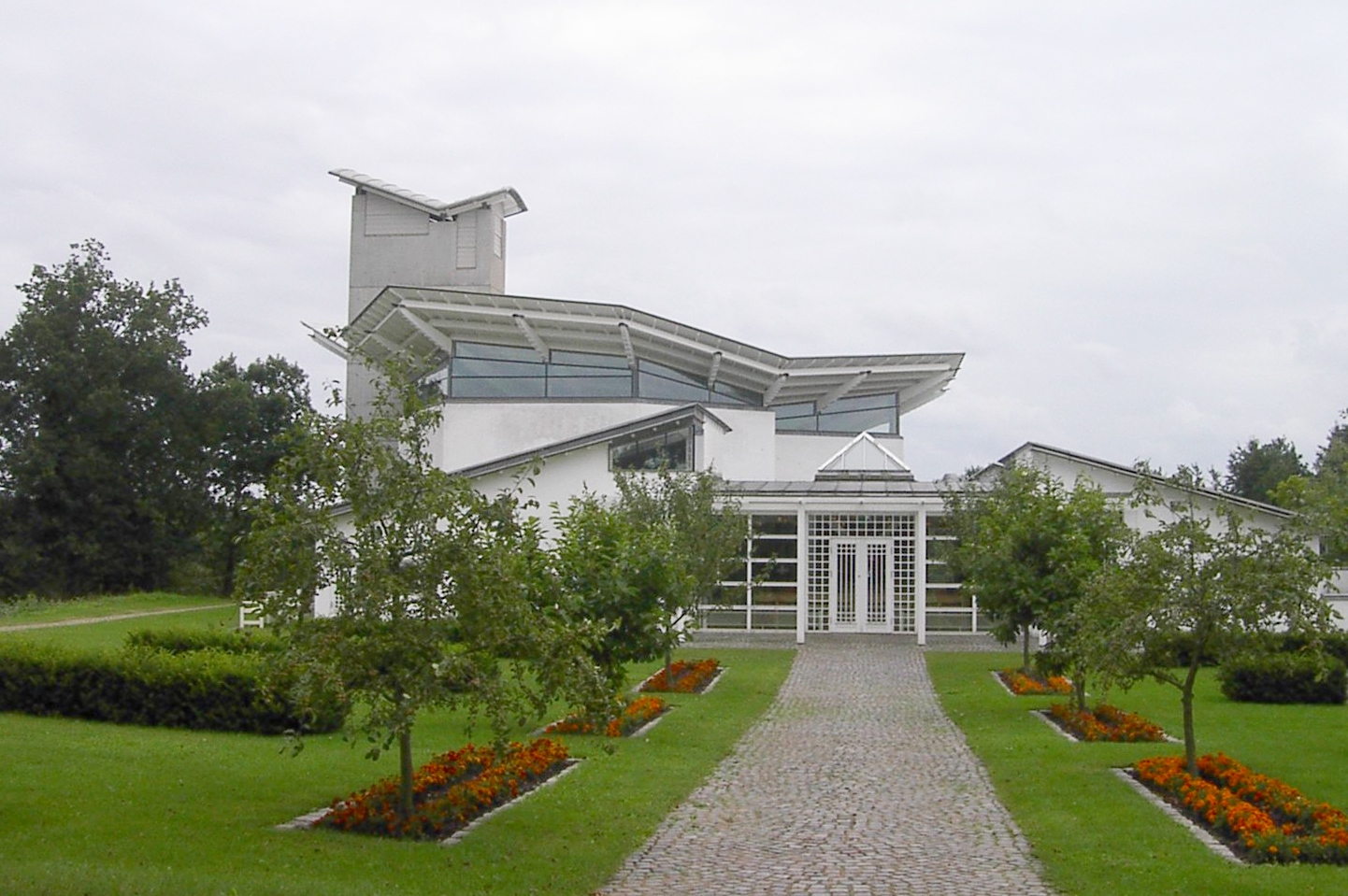 Lyng Church in the village Erritsø next to Fredericia in Denmark.